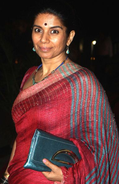 Mita Vashisht at the premiere of Janleva 555